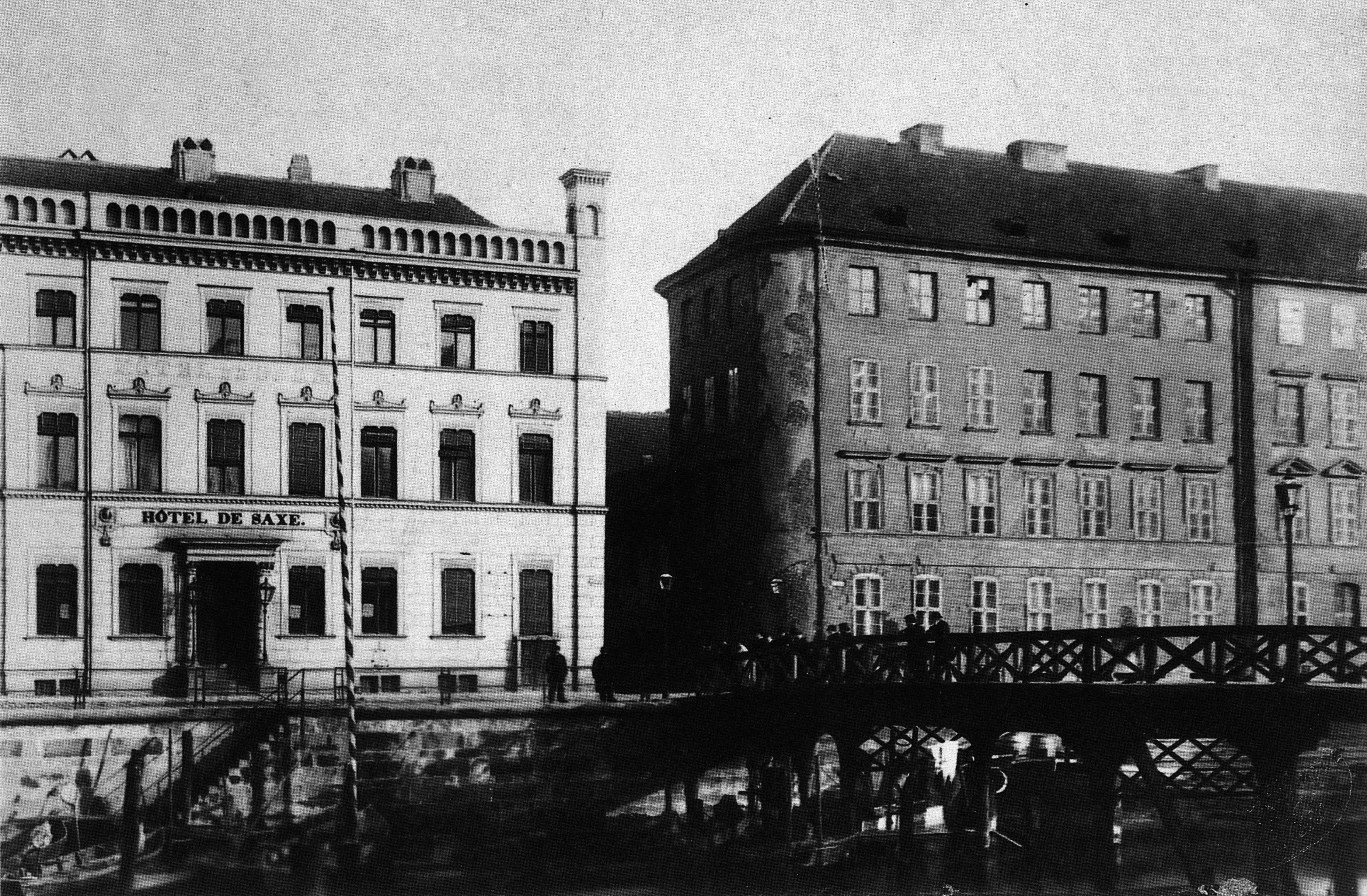 Sechserbrücke (“sixpence bridge”) between Spree Island and Old Berlin. The pedestrians bridge would be replaced by the much bigger Kaiser-Wilhelm-Brücke (now Liebknechtbrücke) ten years later. On the other side of the bridge lies Kleine Burgstraße (now Karl-Liebknecht-Straße).